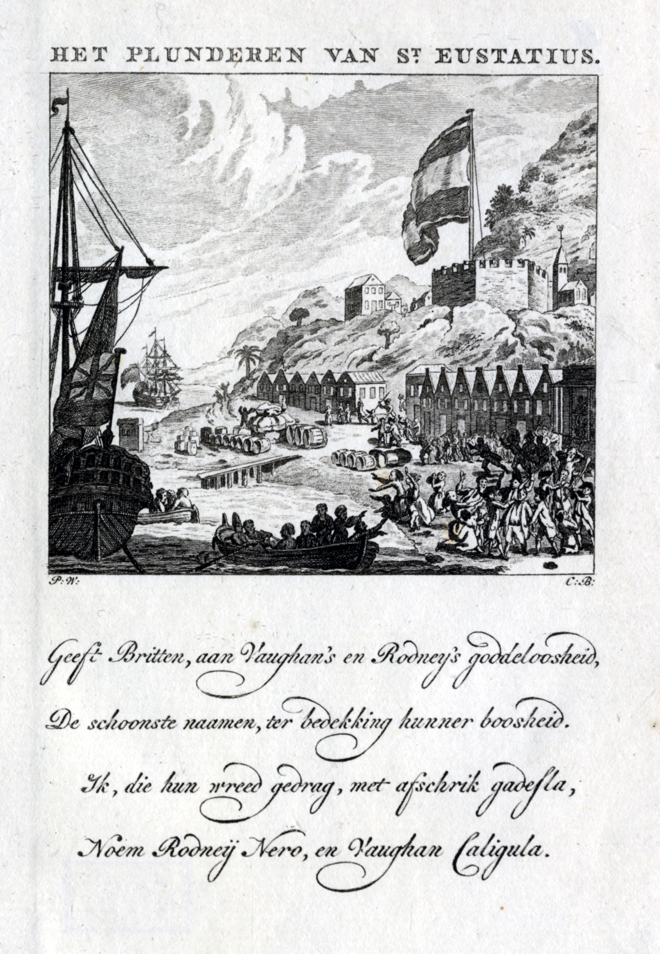 Dutch engraving denouncing the looting of the island of St. Eustatius in 1781 by the Royal Navy (Caribbean). Admiral Rodney is compared to Nero and General Vaughan is treated Caligula.